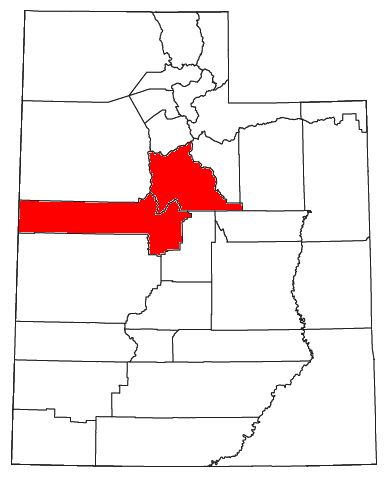 Locator map of the Provo-Orem Metropolitan Statistical Area in the north central part of the U.S. state of Utah.